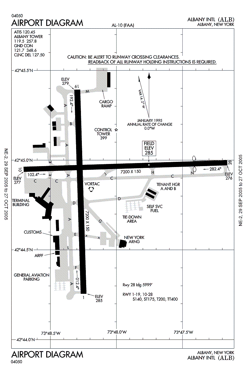 FAA airport diagram for Albany International Airport (ALB) in Albany, New York, United States. Automatically converted to PNG The PNG crusade bot automatically converted this image to the more efficient PNG format. The image was previously uploaded as "00010AD.gif". Previous file history 09:41:40, 22 October 2005 . . Zyxw (Talk